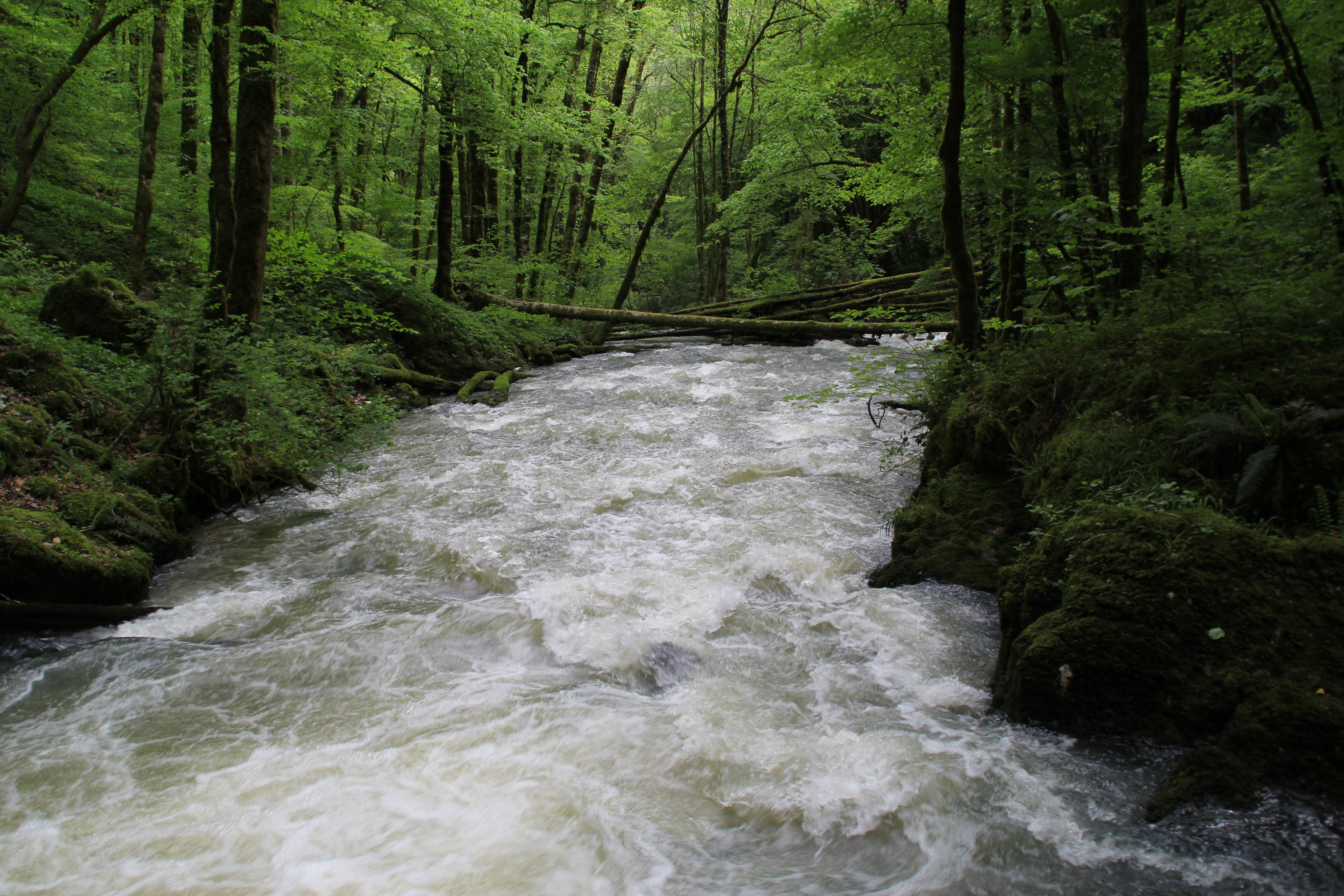 The Pontet river approximately 50 metres below the Source du Pontet